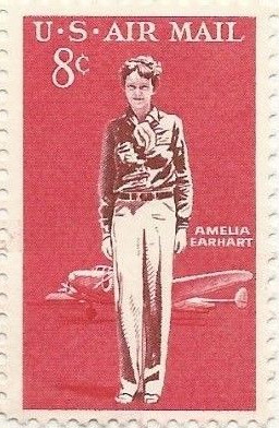 US stamp honoring Amelia Earhart